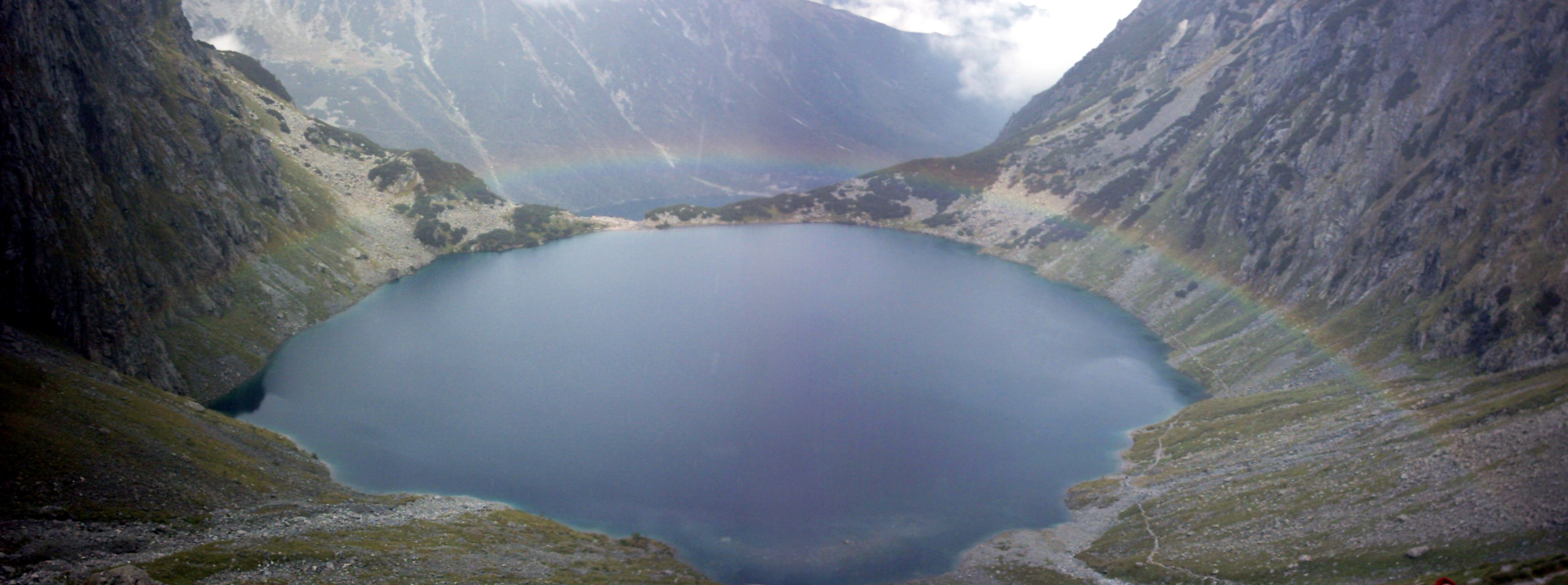 Rainbow over Czarny Staw pod Rysami lake in Tatra mountains in Poland.